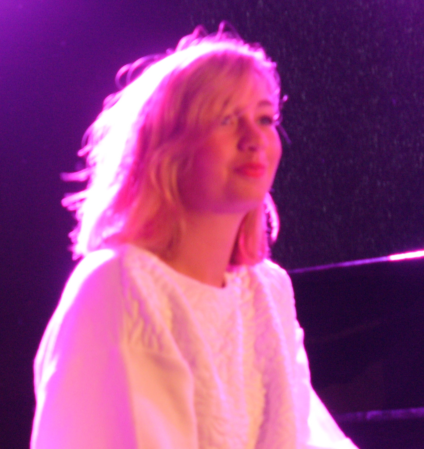 Marte Eberson at Vossajazz April 13, 2014